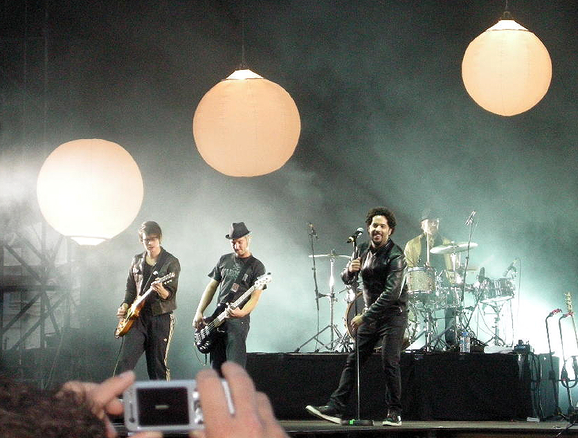 Ich + Ich concert in Salem, Germany